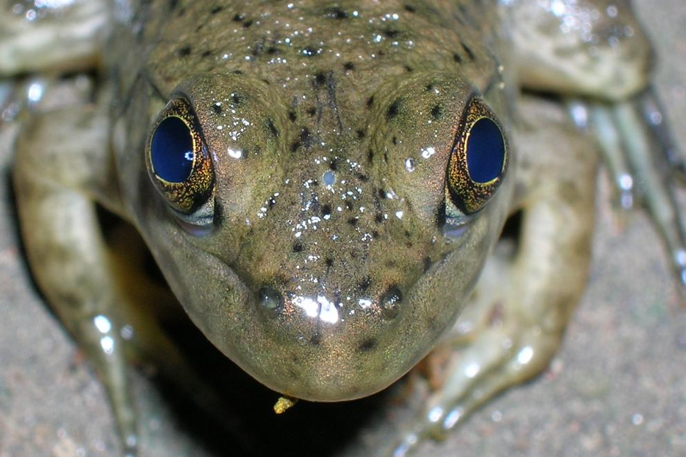 The parietal eye (and two regular eyes) of a juvenile bullfrog (Rana catesbeiana)